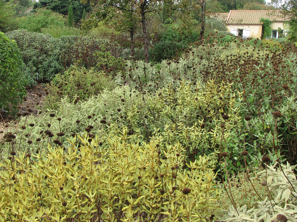 Many different Phlomis species still wearing their spent flower stems, contrasting nicely with the various shades foliage color . . .